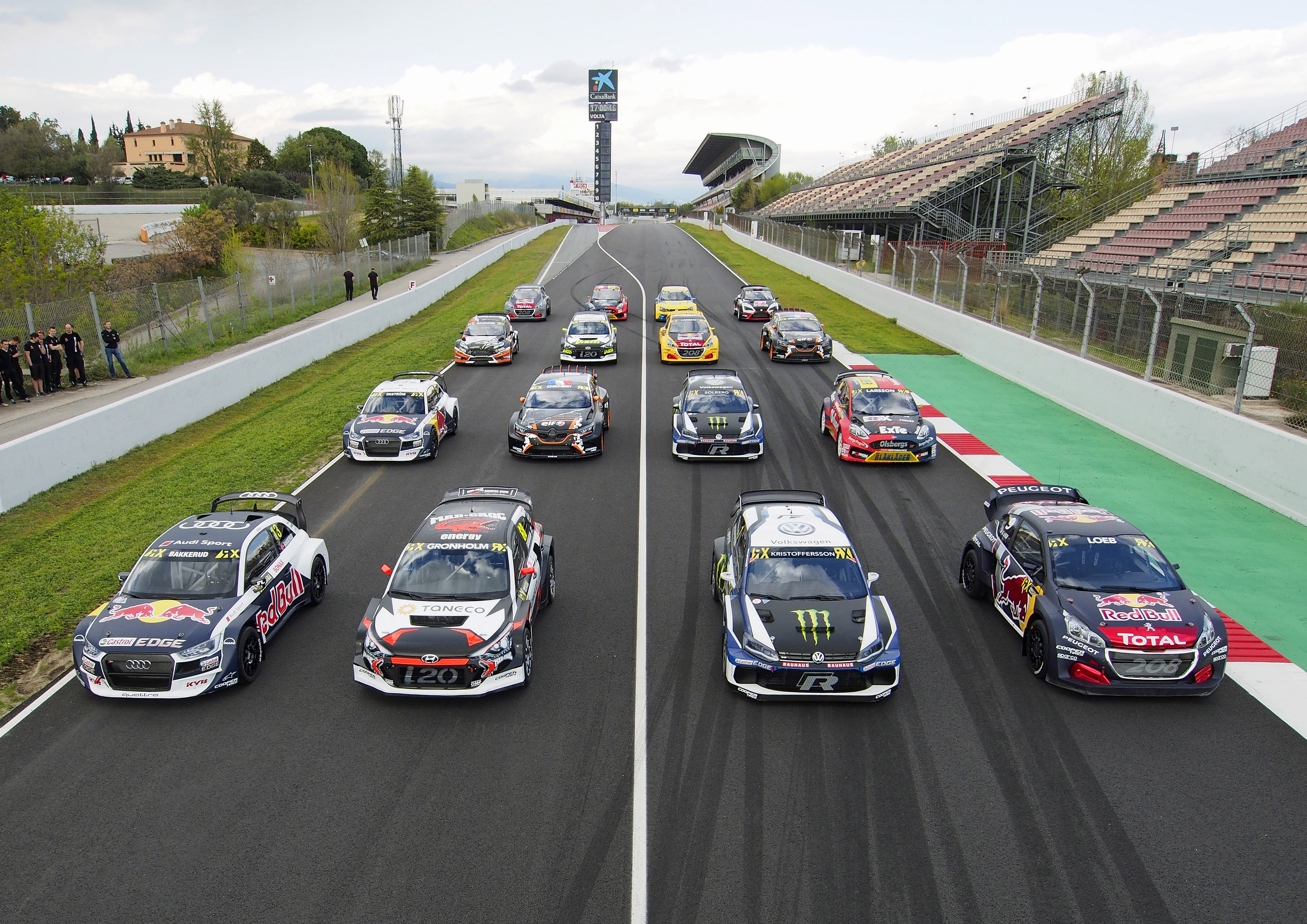 2018 FIA World Rallycross Championship // Round 1, Barcelona // Credit: EKS Audi Sport